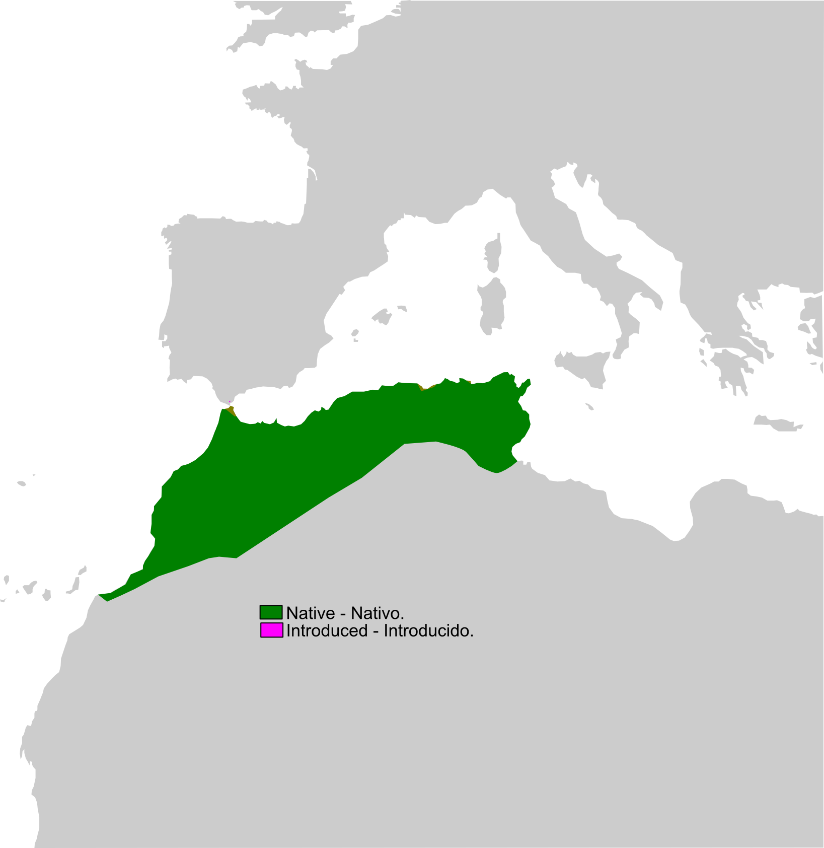 Bufo mauritanicus distribution map.